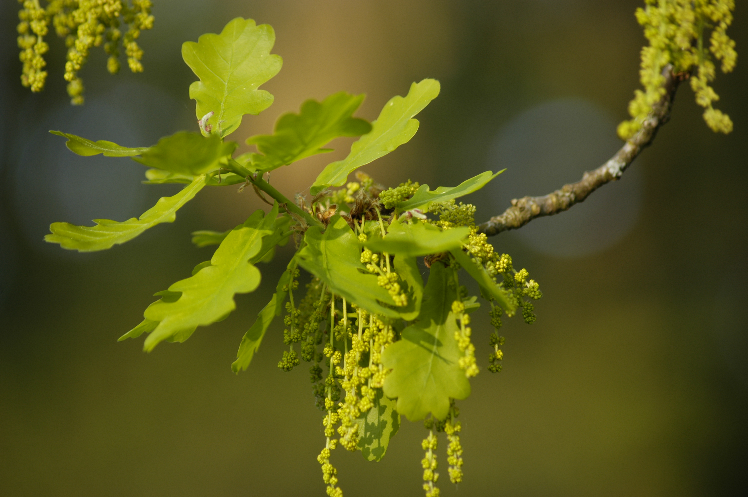 Flowers of the Pedunculate Oak (Quercus robur)